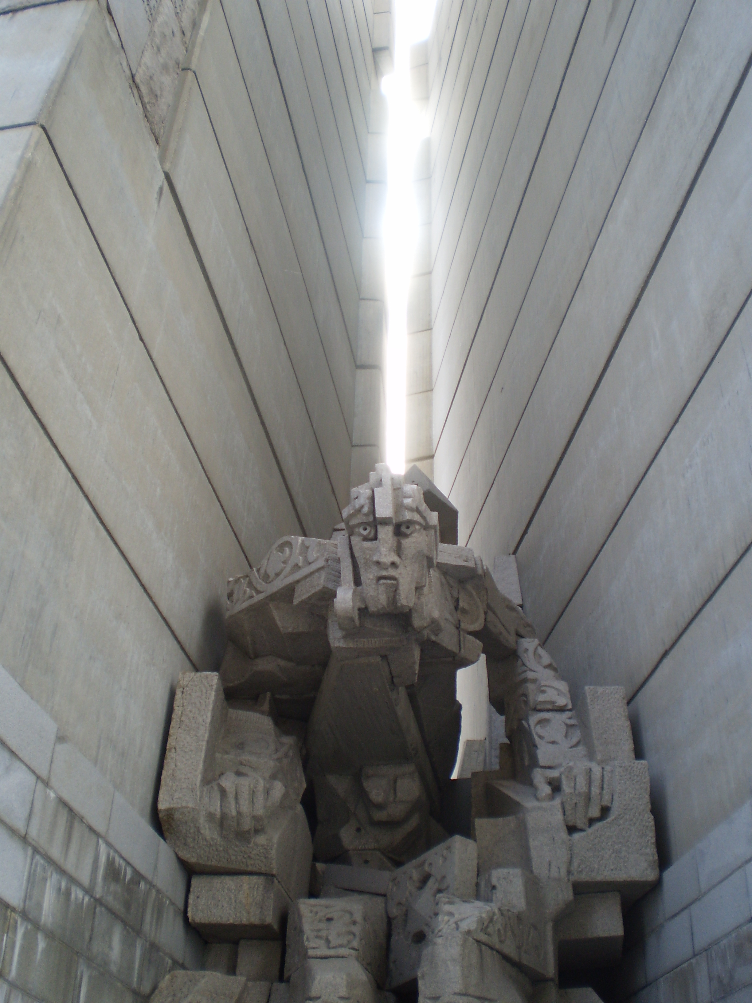 Tervel, Monument to 1300 Years of Bulgaria